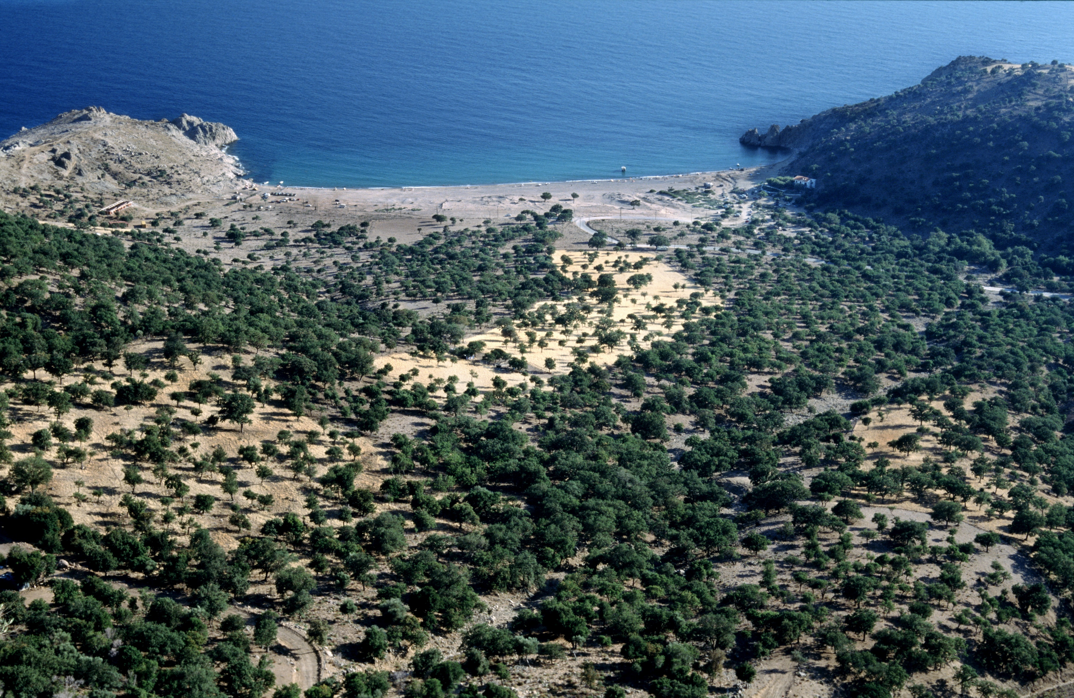 Pahia amos beach, Samothrace island, Thrace, Greece.